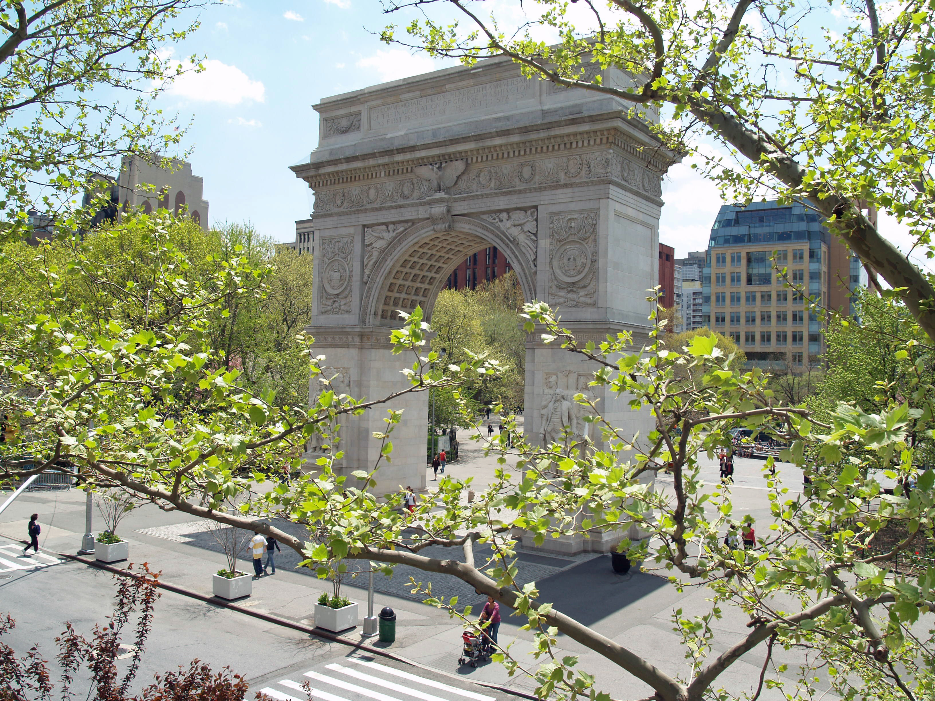 Washington Square Arch shot from the balcony of Larry Kramer's apartment.